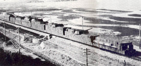 Type 94 Armored Train of the Imperial Japanese Army